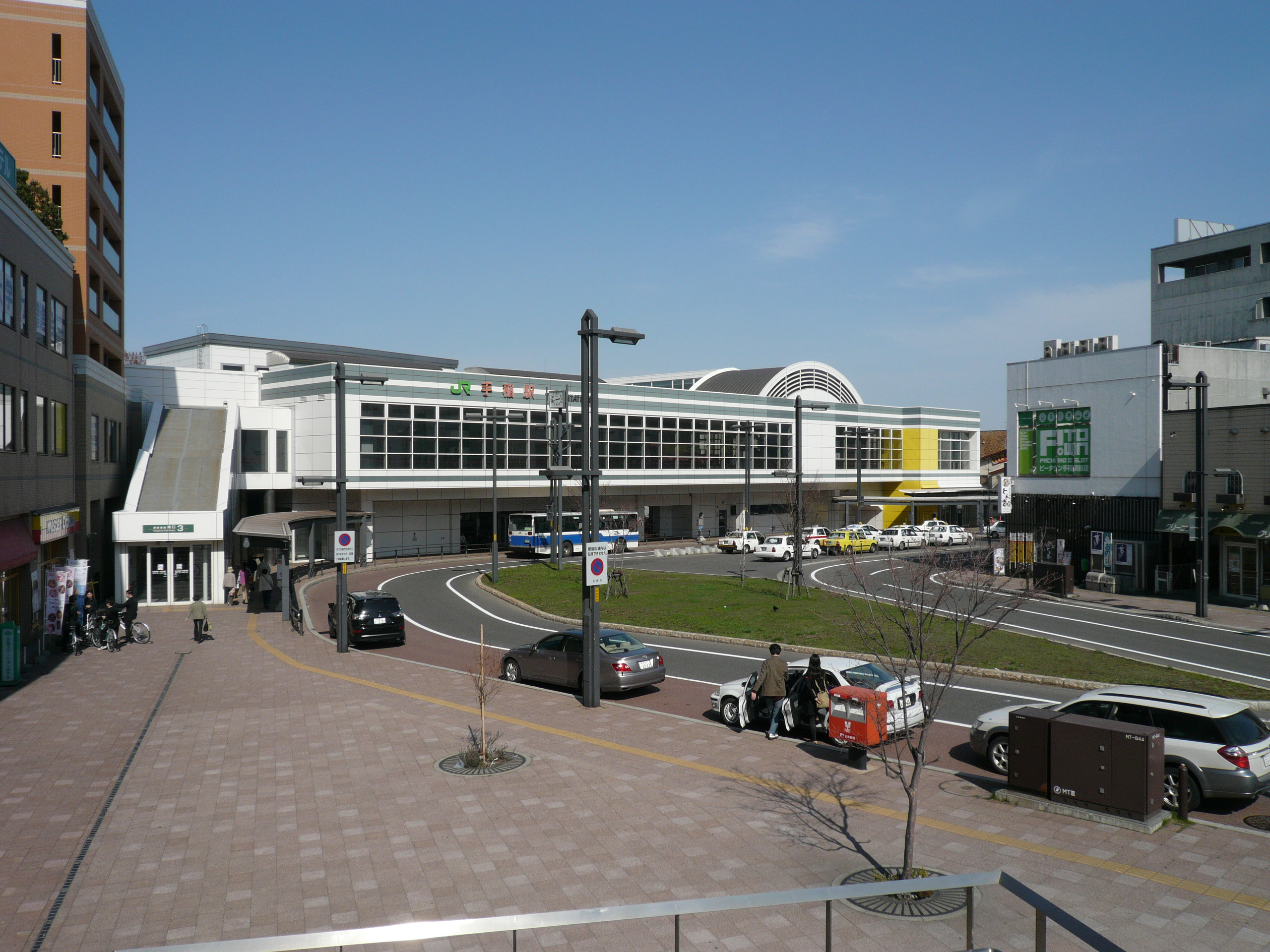 The south entrance of Teine Station in Teine-ku, Sapporo, Hokkaido, Japan